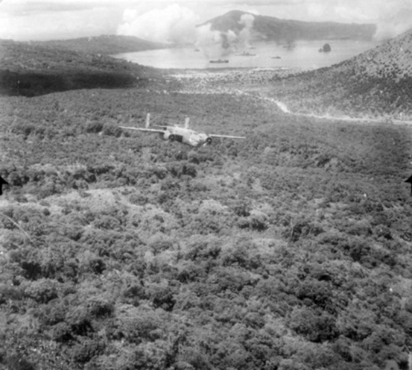 A USAAF North American B-25 Mitchell bomber flying low near Rabaul in February 1943. Japanese ships are burning in Simpson Harbour.